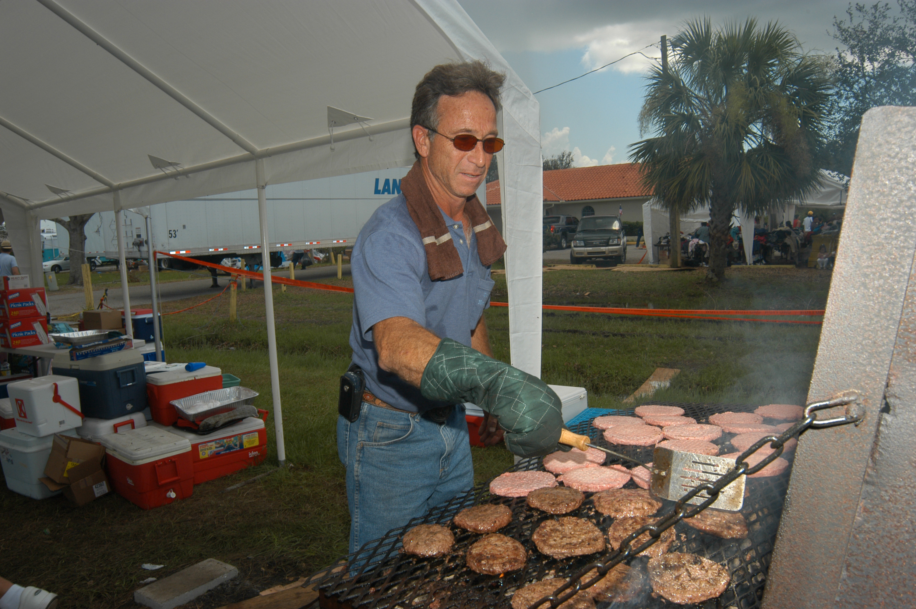 Arcadia, FL, August 29, 2004 -- A Catholic Relief Charities volunteer cooks burgers for residents affected by Hurricane Charley. FEMA Photo/Mark Wolfe